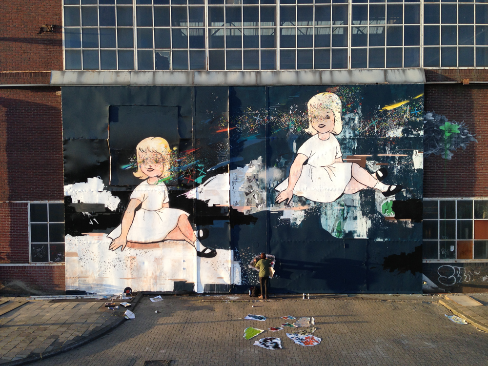 This is a photo of the American artist Amanda Marie installing her mural, 'Imaginary Girls' in North Amsterdam, in June of 2013.